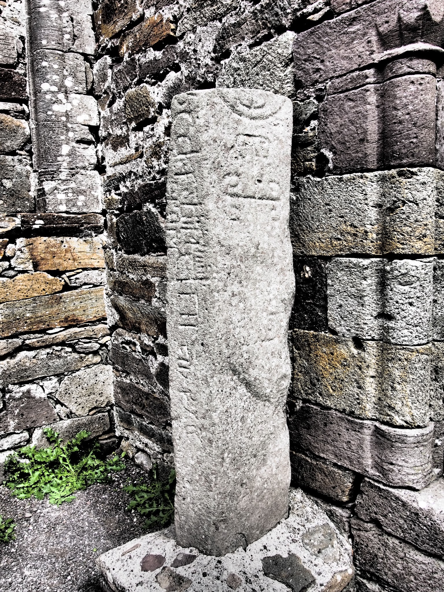 Kilmalkedar Early Medieval Ecclesiastical Site